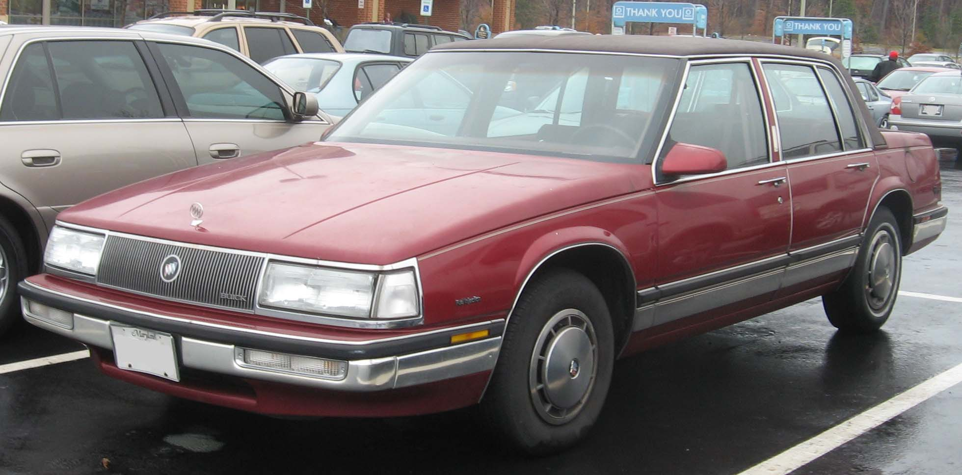 1989-1990 Buick Electra Park Avenue photographed in Accokeek, Maryland, USA.